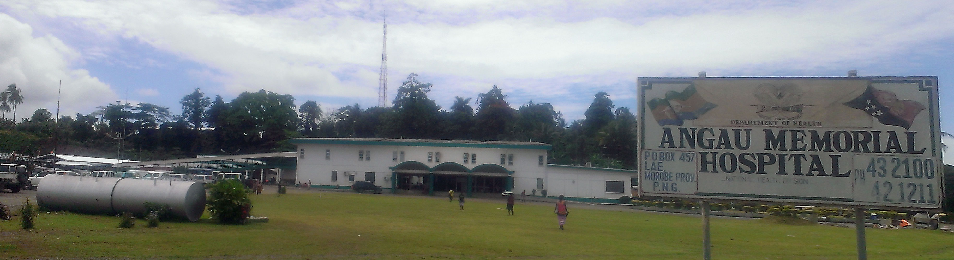 Panoramic photo of ANGAU Memorial Hospital, Markham Rd, Lae. Taken 25 Sept 2014